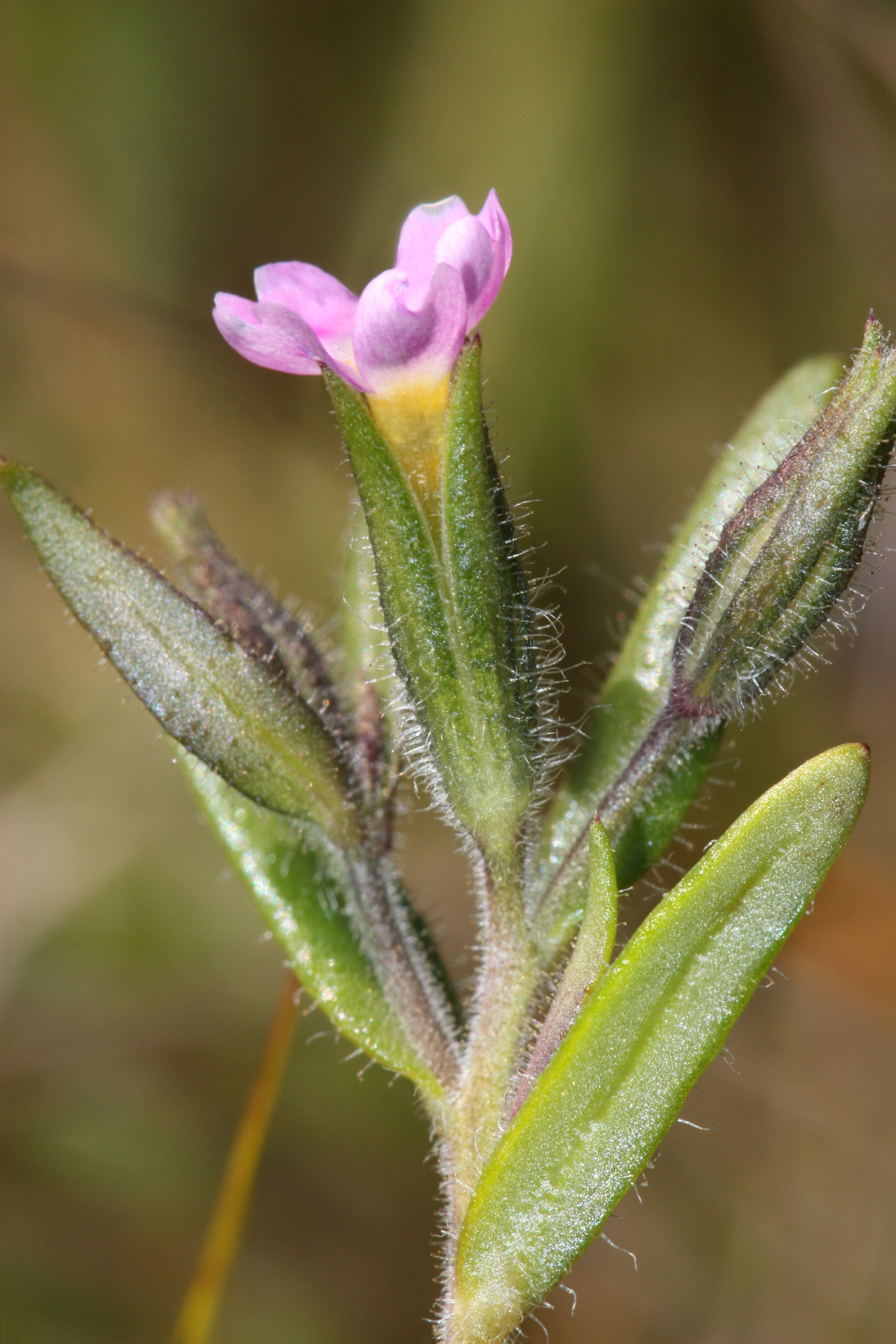 Slender Phlox; Focus stacking (using Helicon Focus). Please see "Other versions" for source images. Viewpoint location: McCall Point Trail, Tom McCall Preserve Viewpoint elevation: 525 meter (1722 ft) Location source: Garmin GPSmap 60CSx Location Datum: WGS84